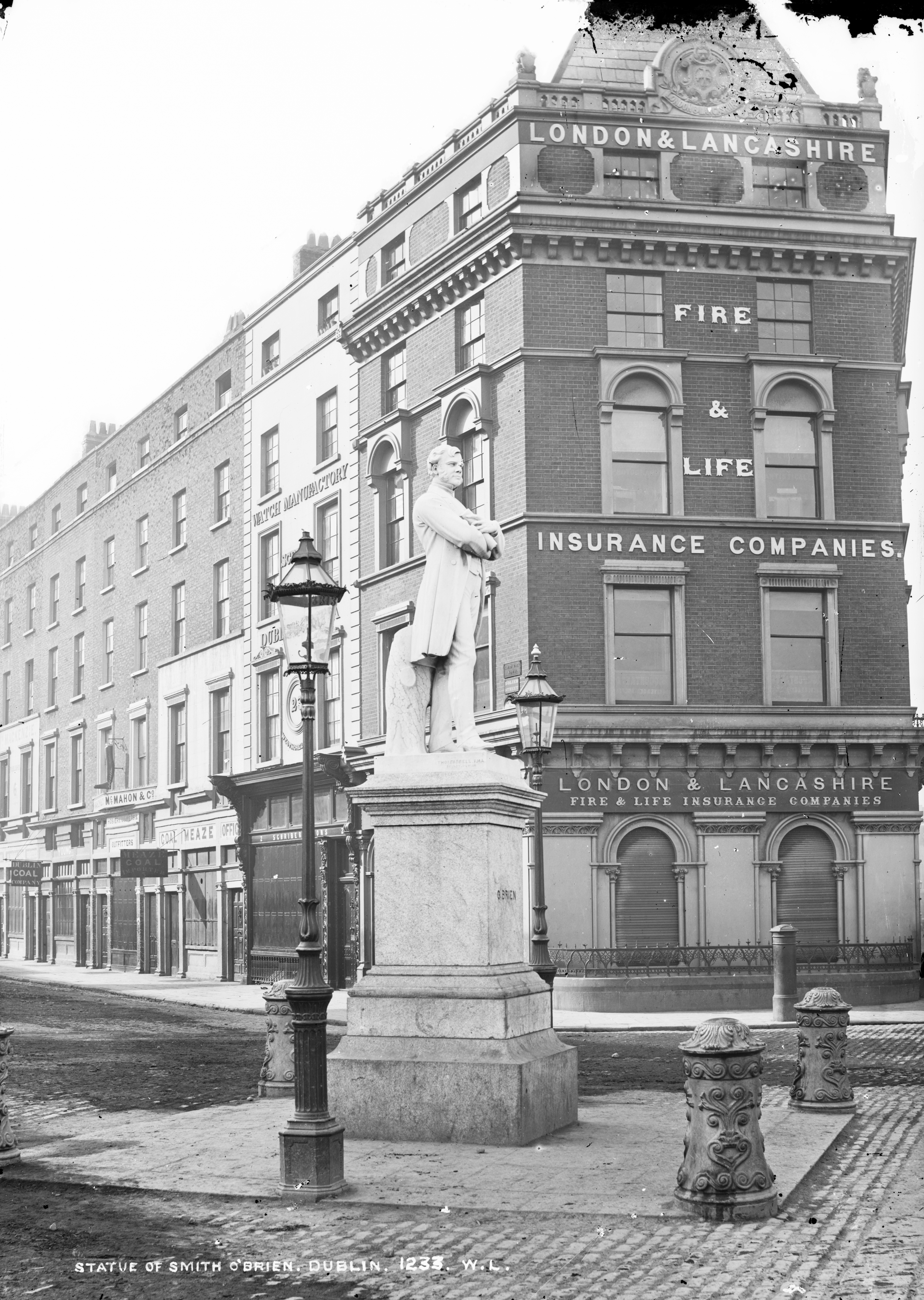 Couldn't resist the clarity of this one - so sharp that you can see the number on the gas lamp. Plus it's great to see the original position of our beautiful "bollards" . And a clear run of businesses along D'Olier Street, including our first ever Hosier/Glover, I think (with a very weird sign)... Date: 1871 (thanks to a concerted effort from all commenters and Niall McAuley) NLI Ref.: L_CAB_01233